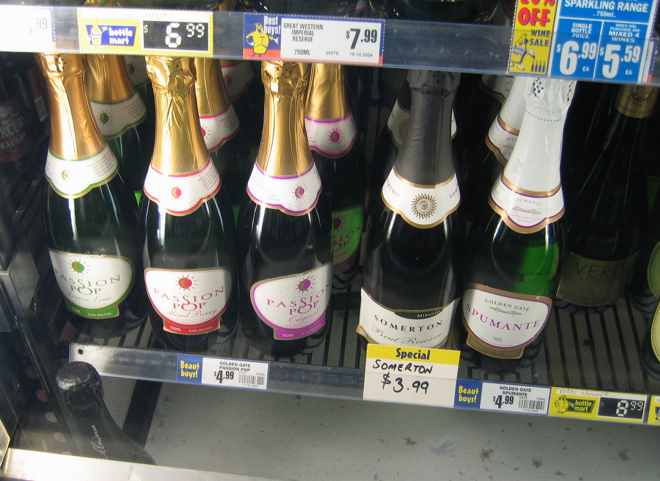 Bottles of Passion Pop in an Australian bottle shop. $4.99 for 'Lemon Lime', 'Mixed Berry' or 'Original' varieties, 750ml bottle, 9.5% alcohol. Other cheap wines are on the same shelf.